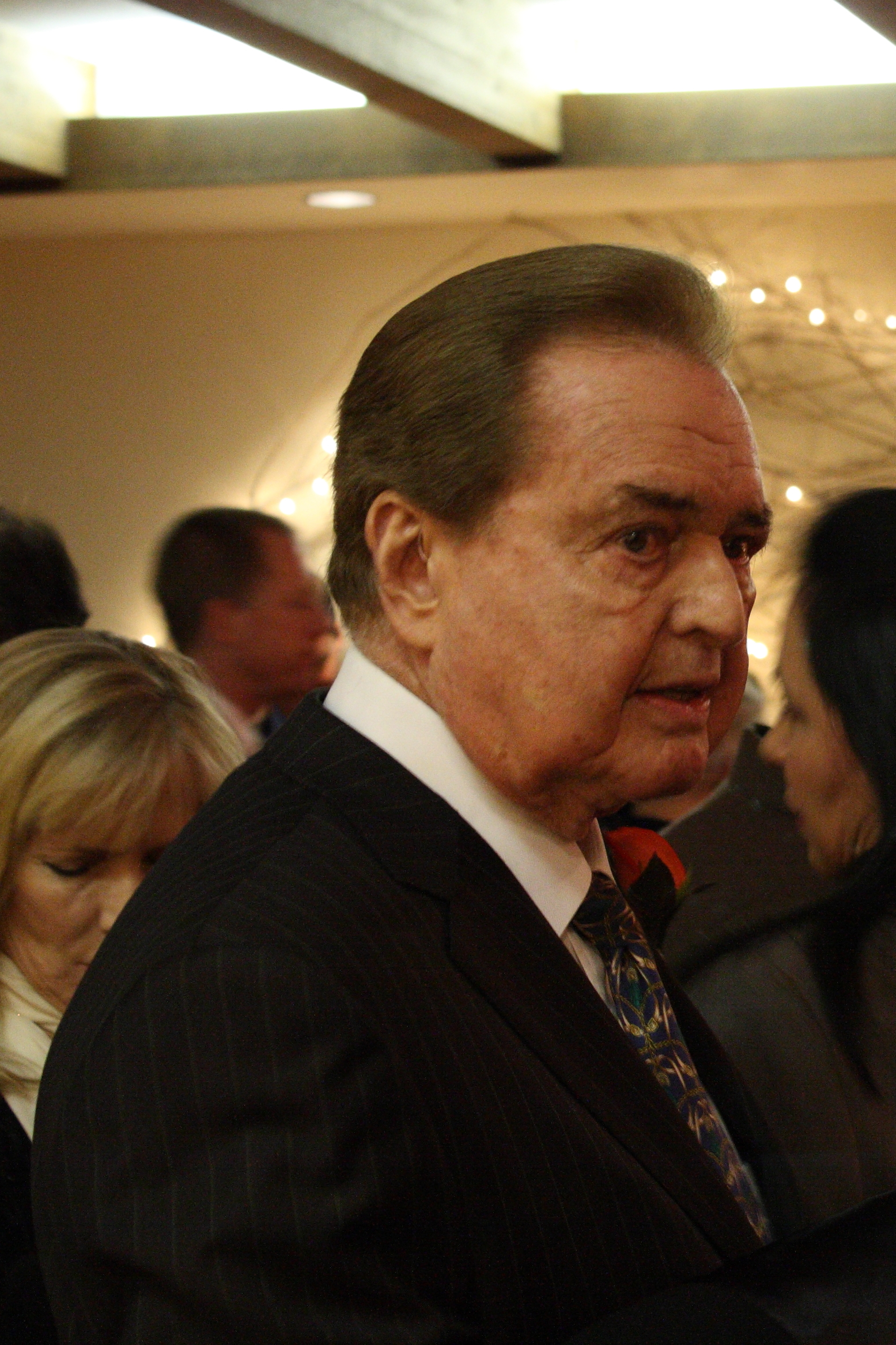 Wheeler Cowperthwaite, , Attribution: Share alike